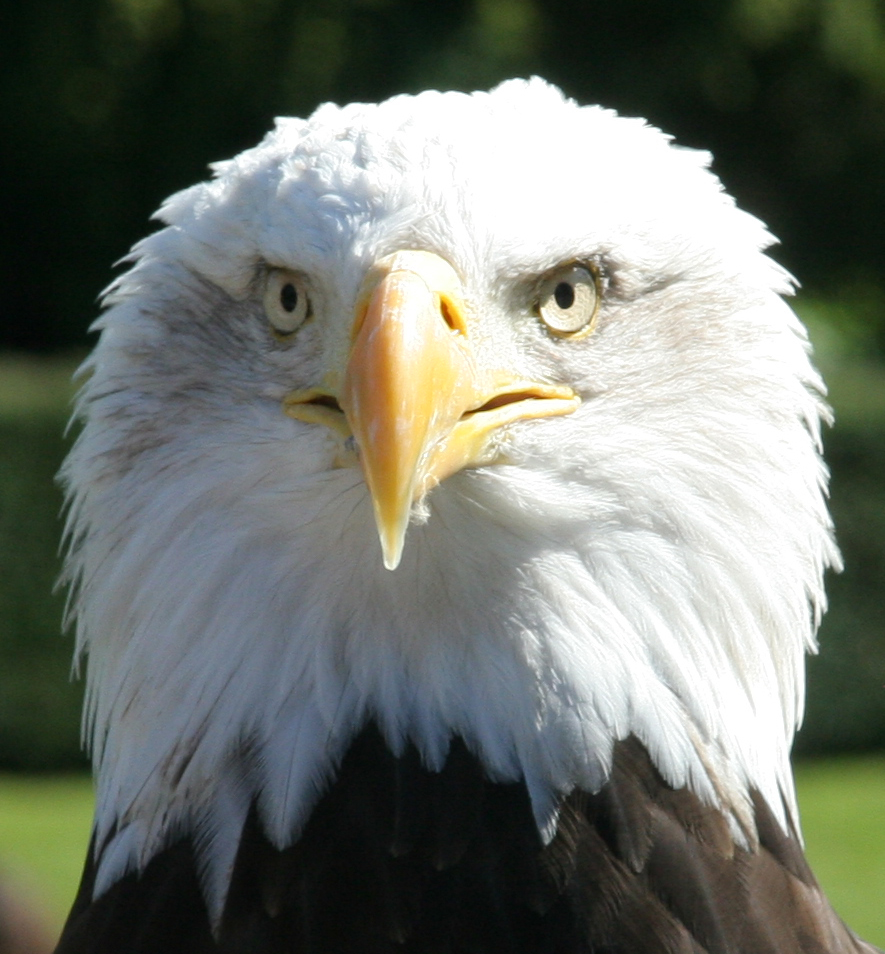 Bald Eagle Head 2